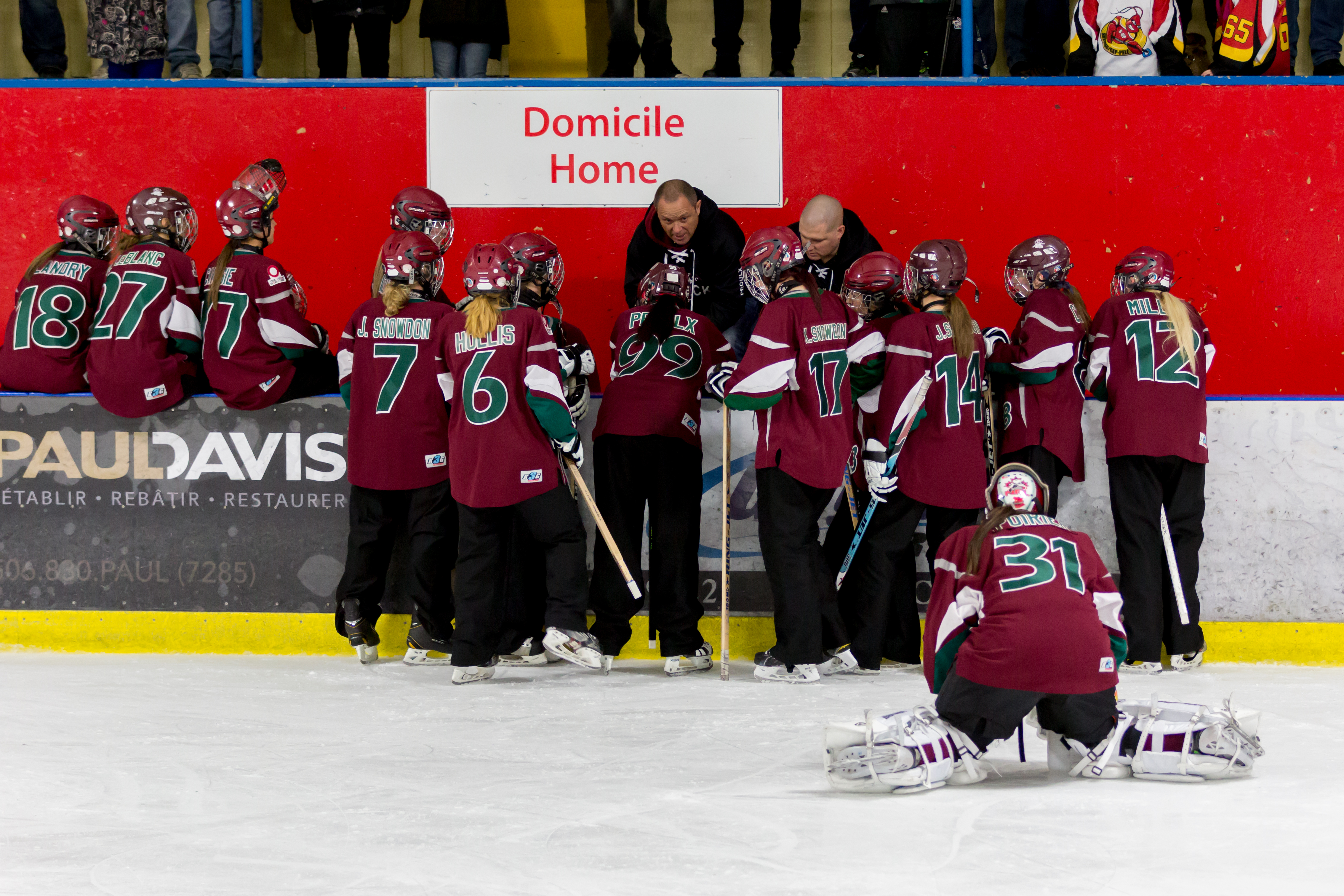 This photo shows the Atlantic Attack team, playing in the Canadian National Ringette league during a playoff game on March 12th 2016